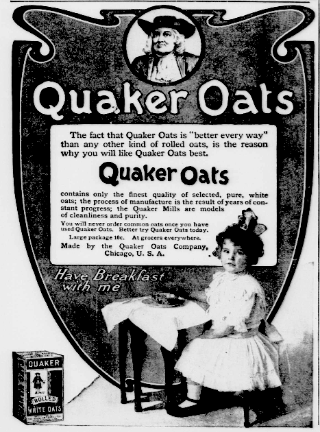 Newspaper ad for Quaker Oats.